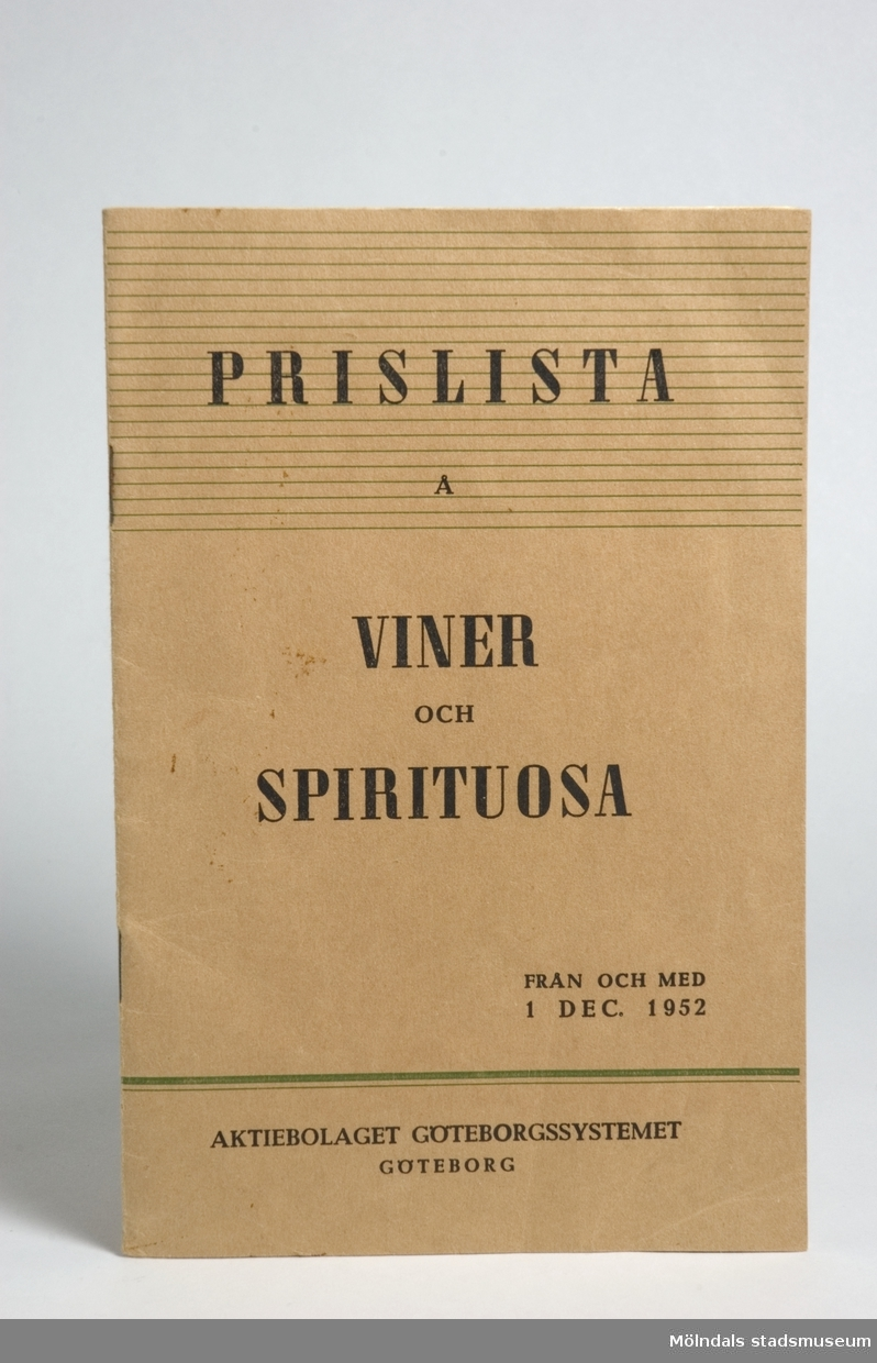 Price range of alcoholic beverages in Sweden during the 1950s.